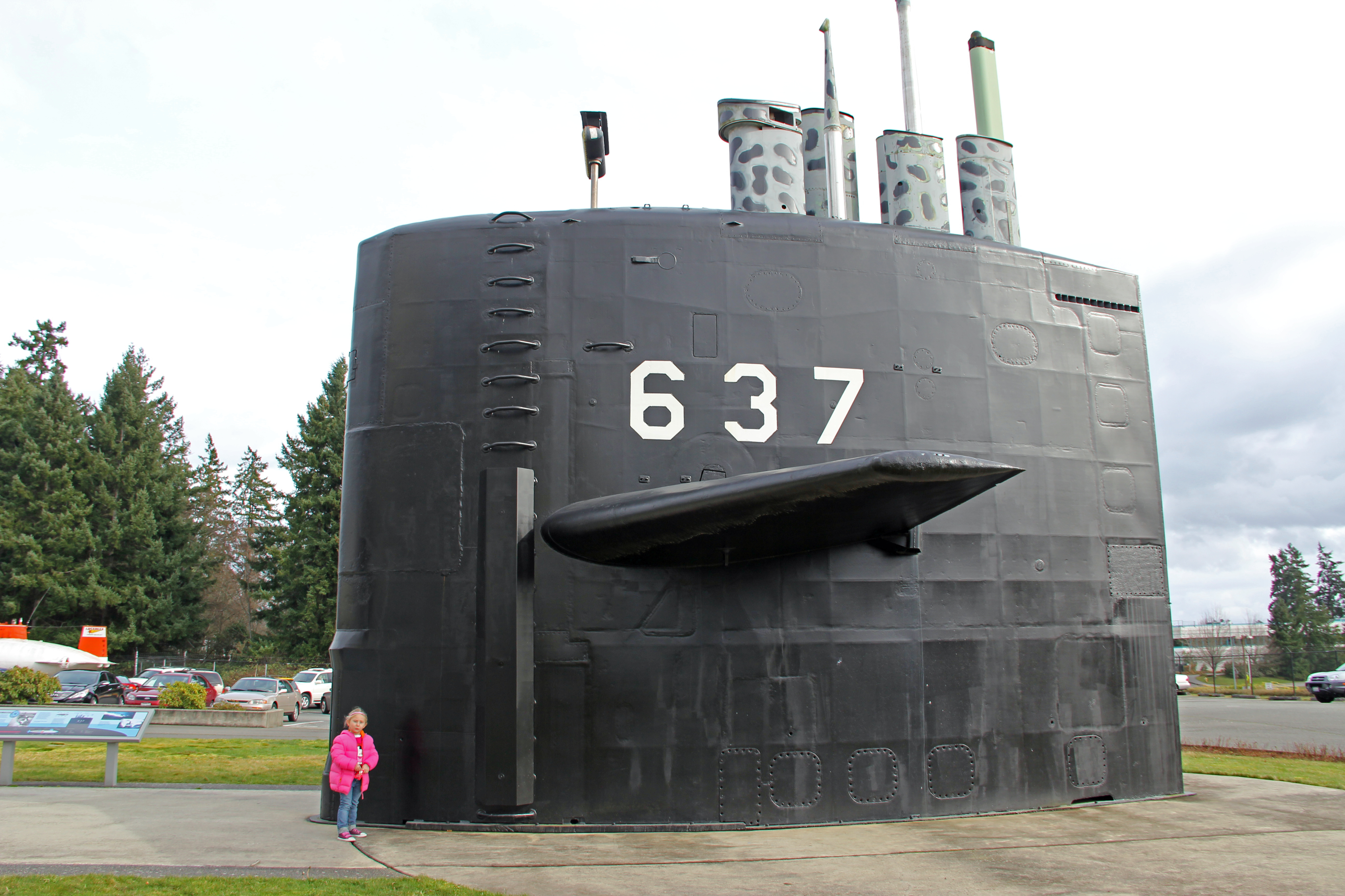 The sail of the USS Sturgeon is _big_. The Sturgeon was the lead shp of her nuclear attack submarine class and her sail is now outside the Naval Undersea Museum at Keyport, WA